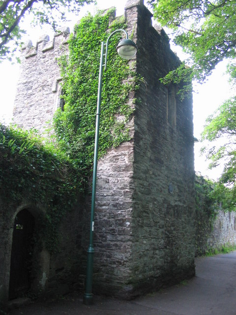 "Still House", Tavistock Abbey, Devon. A view looking north along the riverside walk. A plaque on the building states that the building was one of the corners of the Abbey precinct, and was used by the monks to distill, for medicinal purposes, herbs from the nearby garden. The building was restored in 1884.